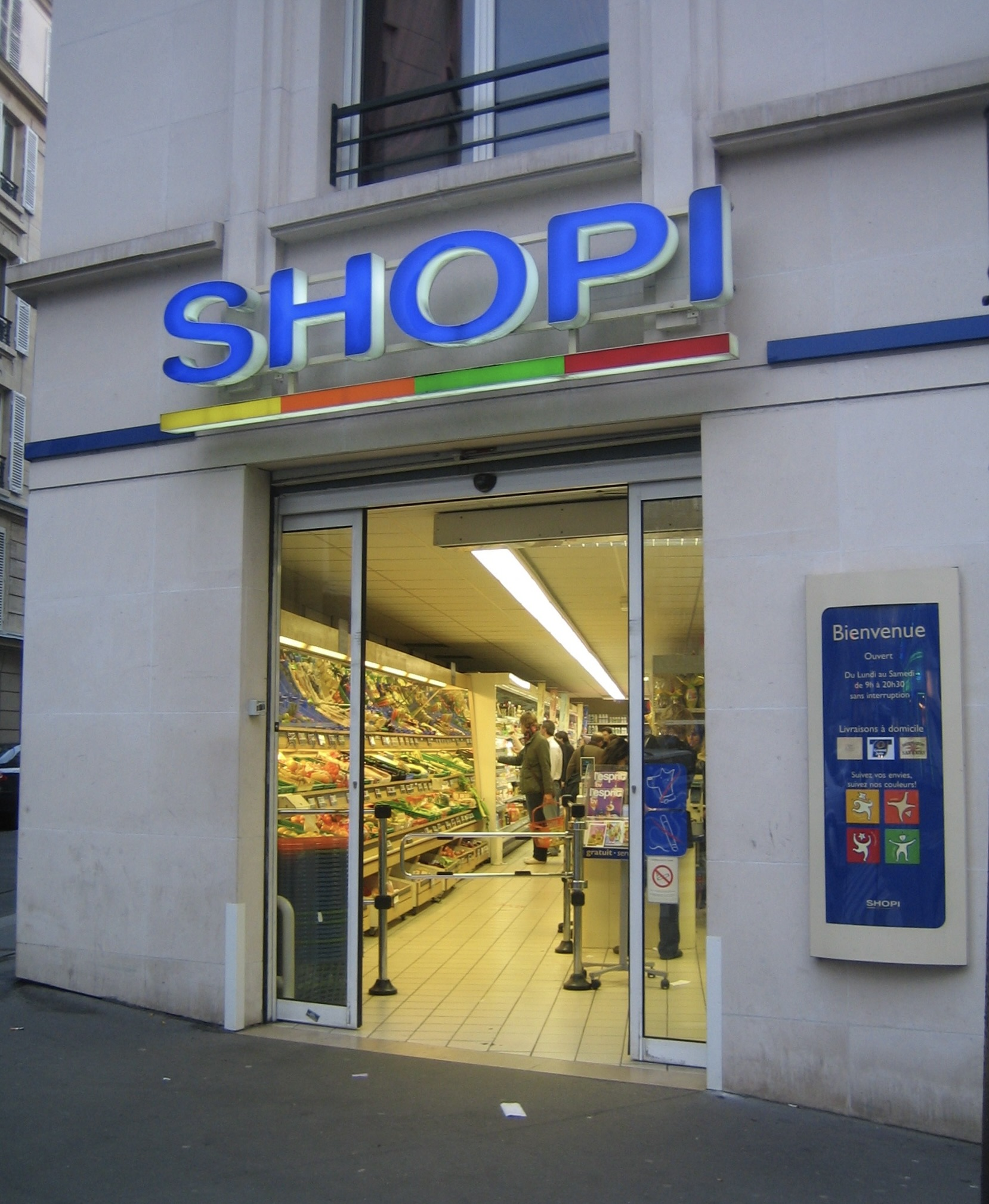 Shopi supermarket